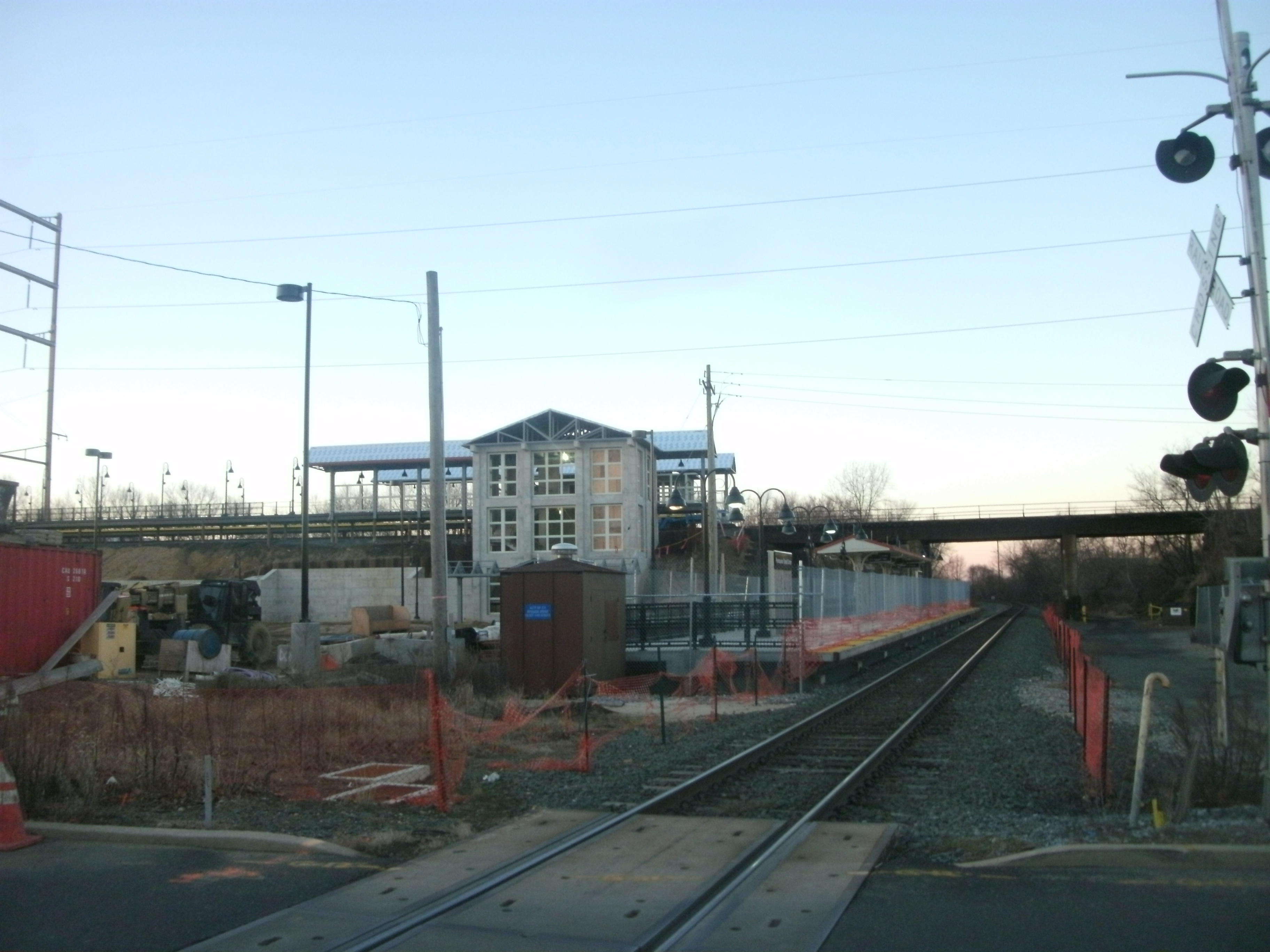 Pennsauken Transit Center under construction in January 2013, nine months before its opening